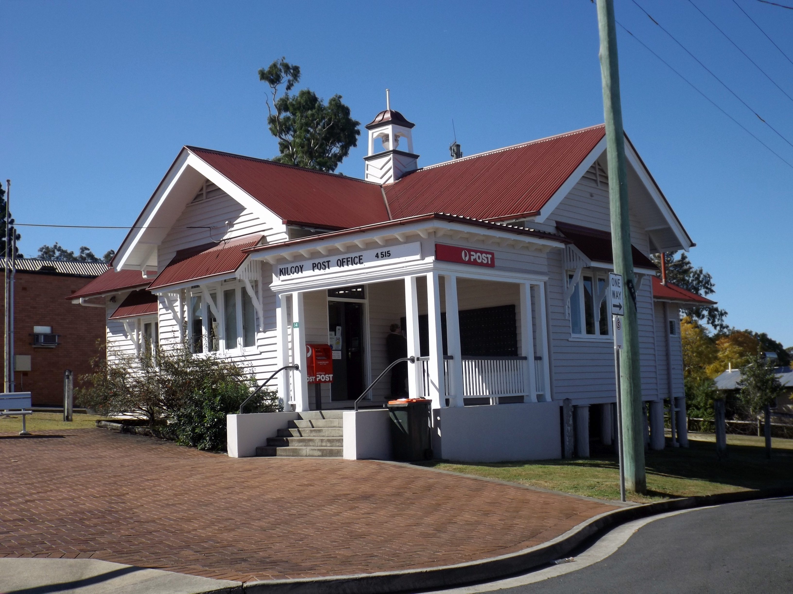 Photo of Kilcoy Post Office at Kilcoy, Somerset Region, Queensland, Australia.